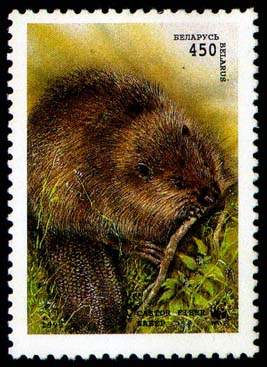 Stamp of Belarus